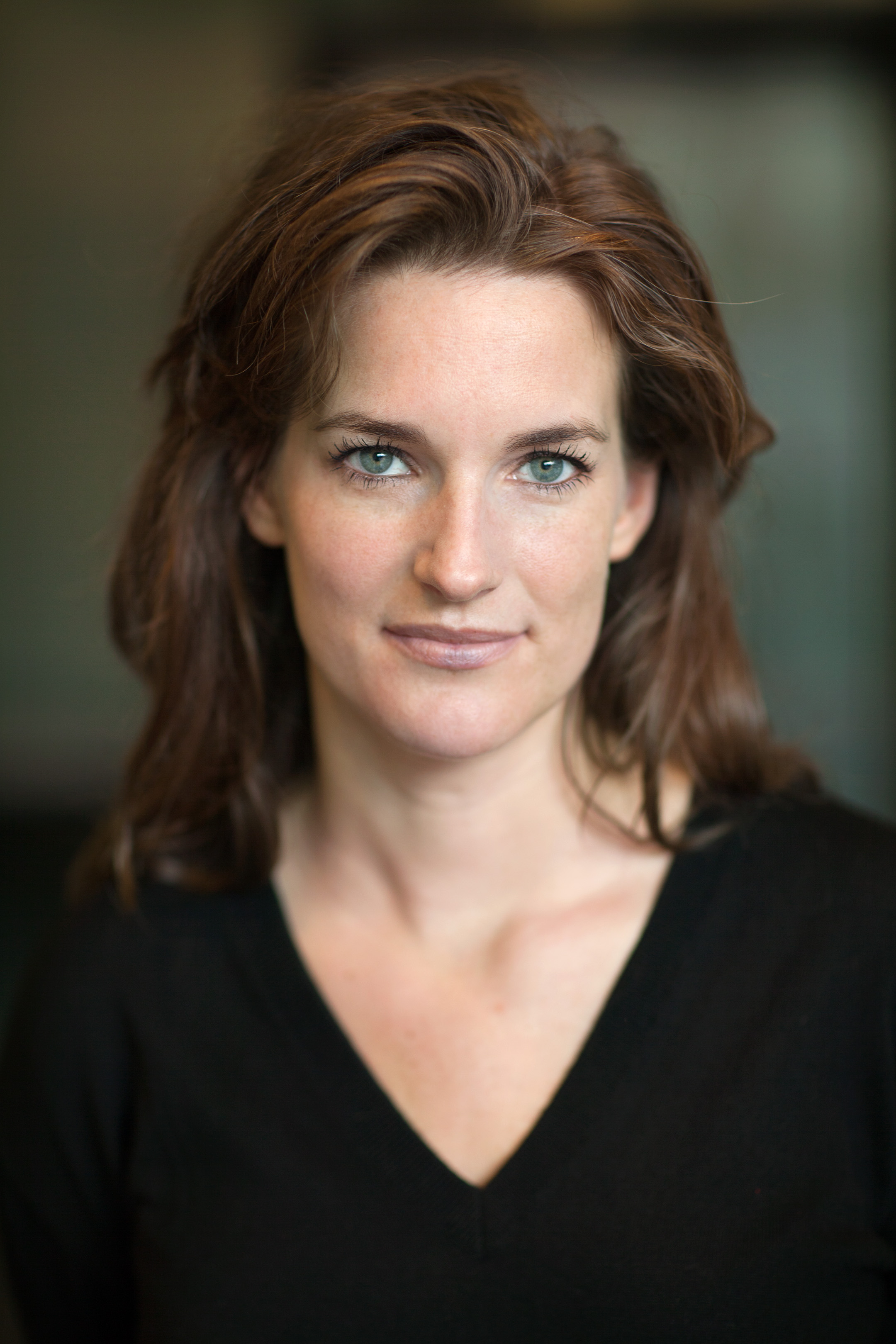 The Swedish journalist Josefine Hökerberg